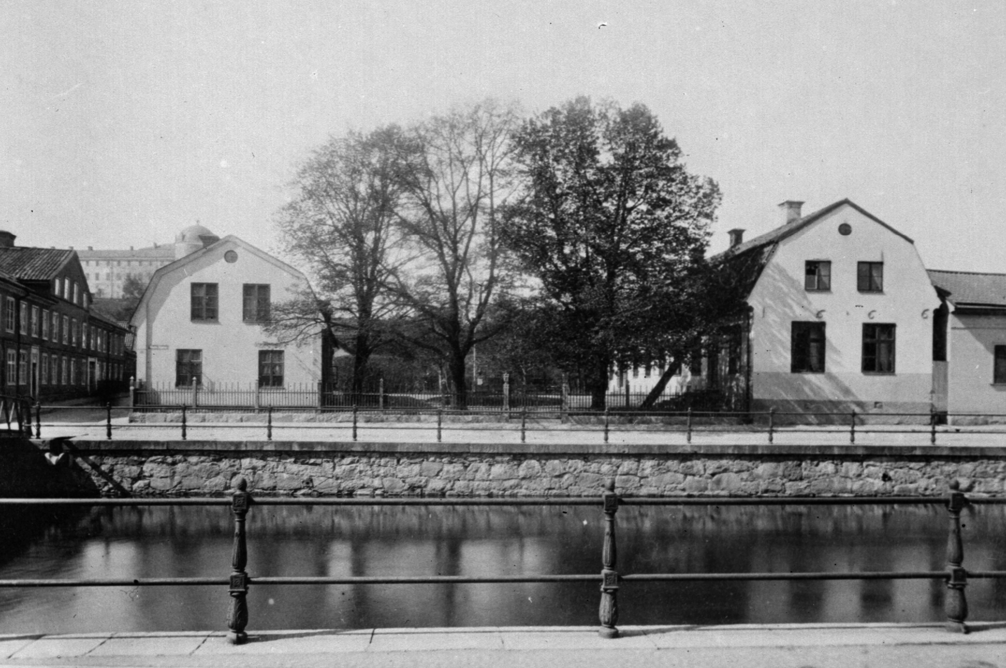 Västgöta Nation, Uppsala. Building before adding tower.